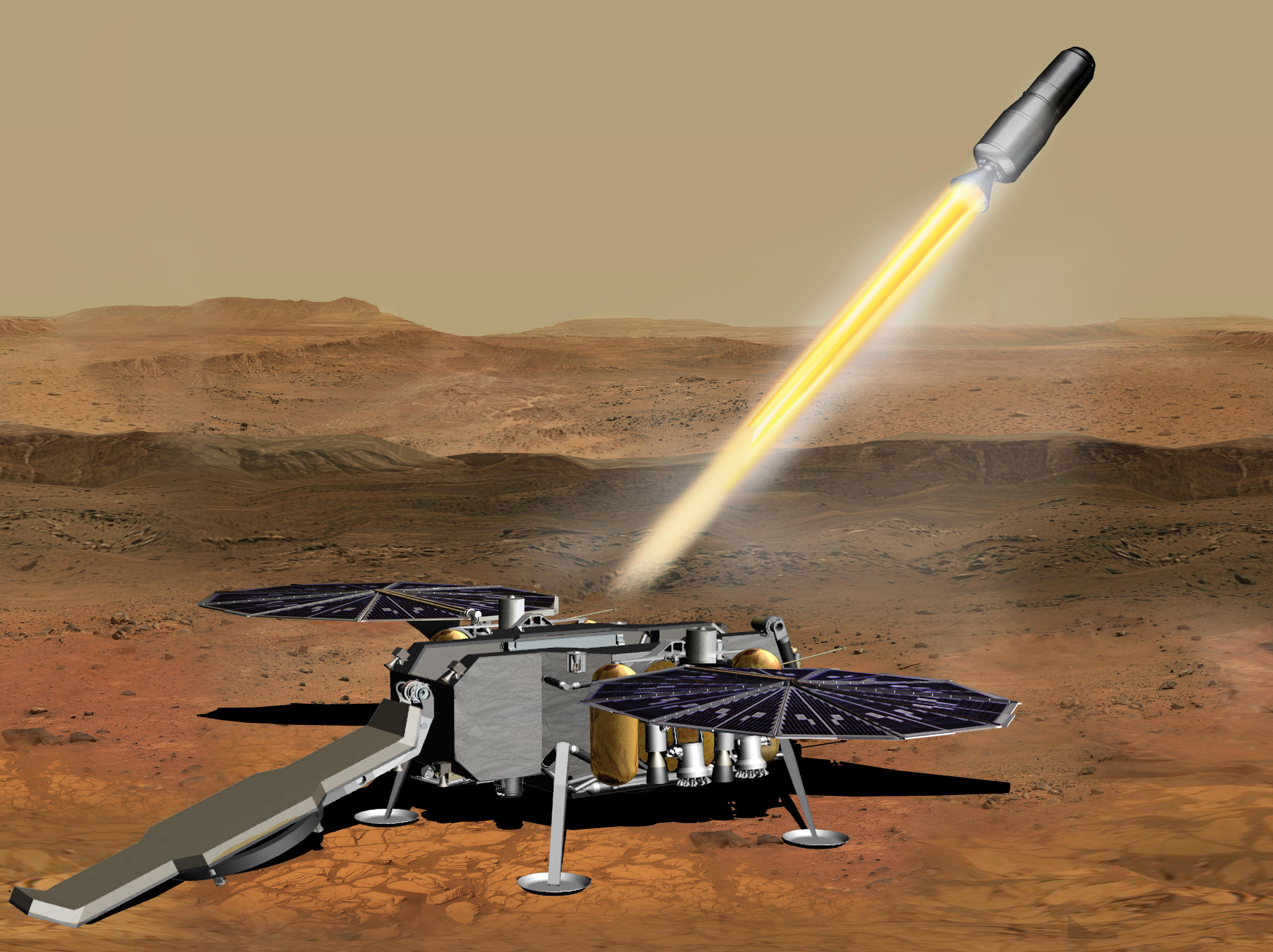 PIA23496: Mars Ascent Vehicle Launching with Samples (Artist's Concept) This illustration shows a concept of how the NASA Mars Ascent Vehicle, carrying tubes containing rock and soil samples, could be launched from the surface of Mars in one step of the Mars sample return mission. NASA and the European Space Agency are solidifying concepts for a Mars sample return mission after NASA's Mars 2020 rover collects rock and soil samples and stores them in sealed tubes on the planet's surface for potential future return to Earth. NASA will deliver a Mars lander in the vicinity of Jezero Crater, where Mars 2020 will have collected and cached samples. The lander will carry the ascent vehicle along with an ESA Sample Fetch Rover that is roughly the size of NASA's Opportunity Mars rover. The fetch rover will gather the cached samples and carry them back to the lander for transfer to the ascent vehicle; additional samples could be delivered directly by Mars 2020. The ascent vehicle will then launch from the surface and deploy a special container holding the samples into Mars orbit. ESA will put a spacecraft in orbit around Mars before the ascent vehicle launches. This spacecraft will rendezvous with and capture the orbiting samples before returning them to Earth. NASA will provide the payload module for the orbiter.